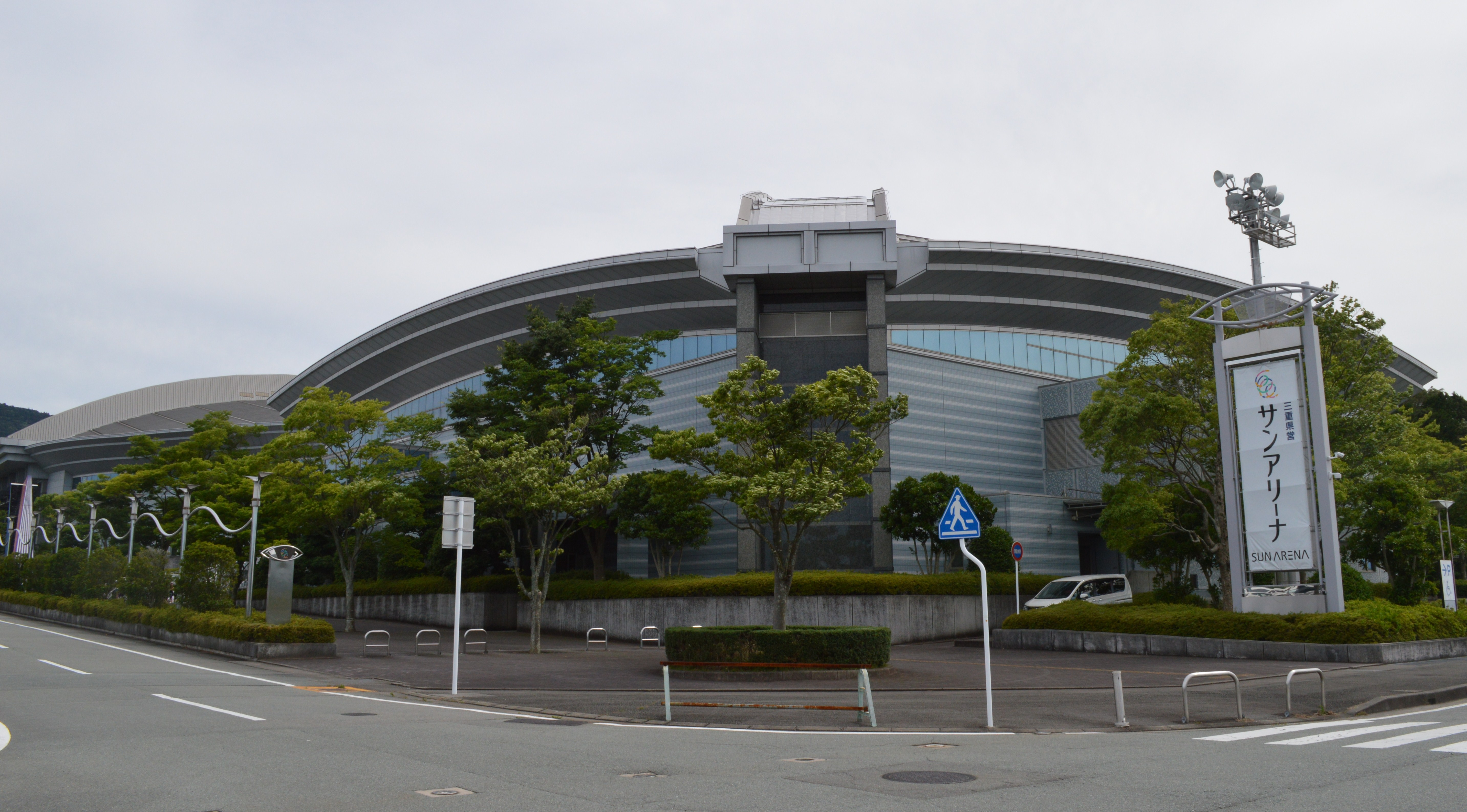 三重県営サンアリーナ